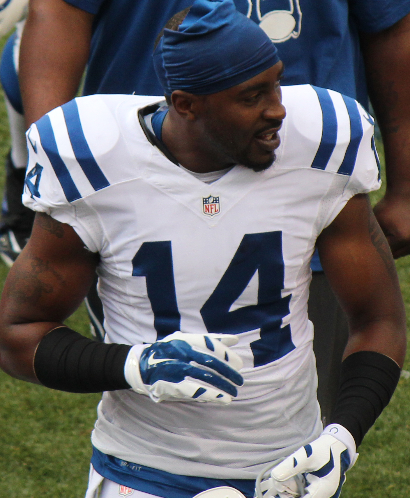 Hakeem Nicks, a player on the National Football League.